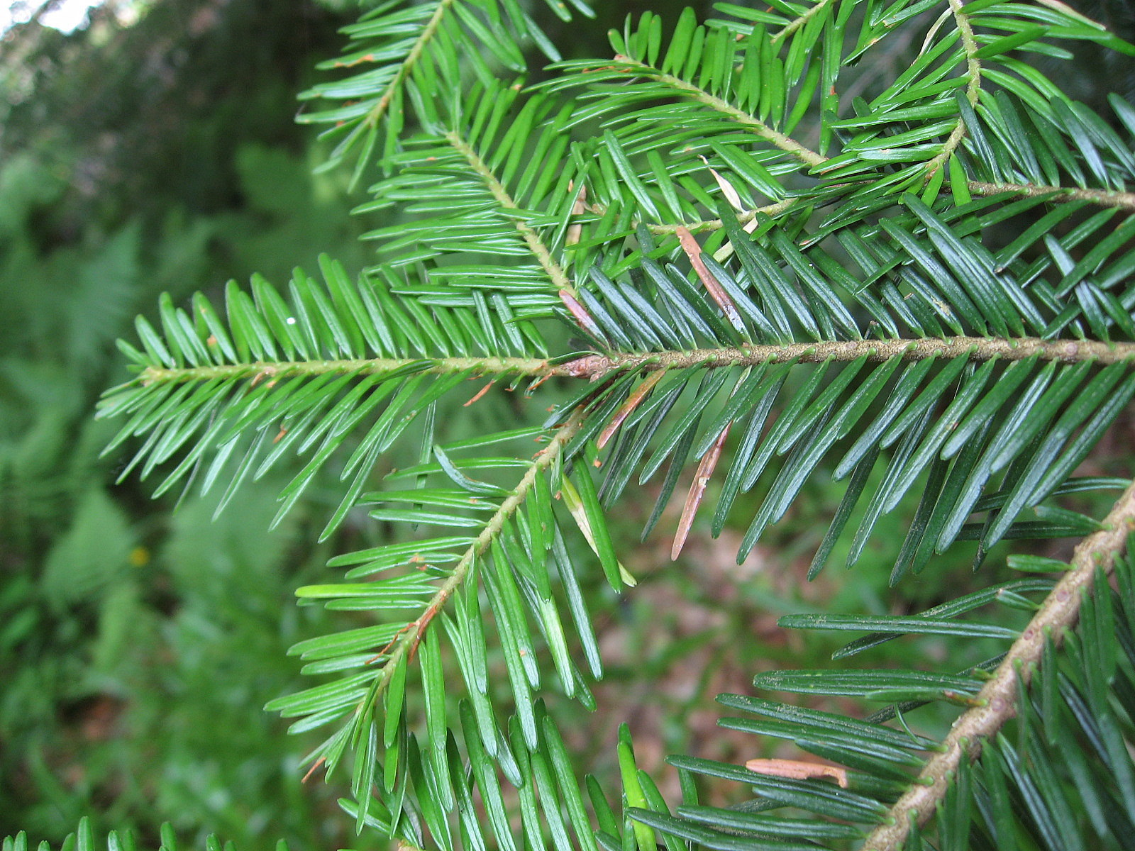 Abies alba lower crown foliage. Pyrenees.